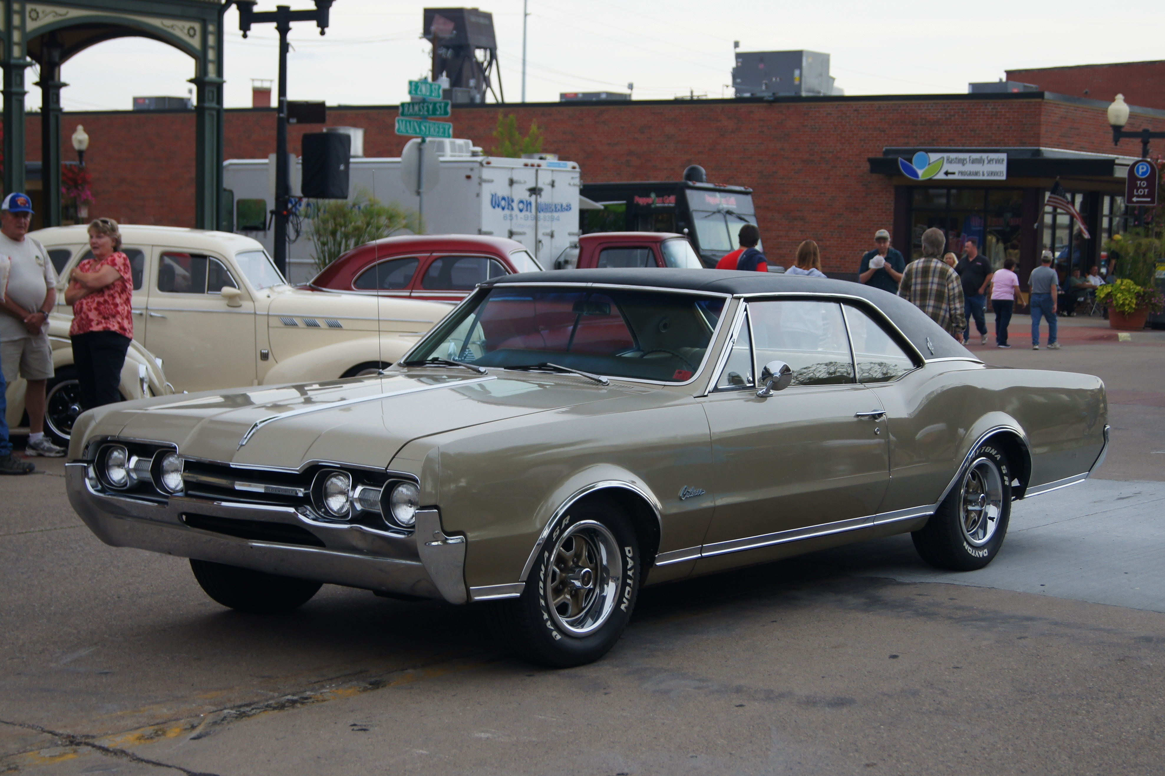 9th Annual Saturday Night Cruise-In September 20,2014 Hastings, Minnesota My second time to this event and the second time I got rained on. It was nice before and after the rain though. I did miss quite a few great cars that left before I could capture them, including a white 1962 Imperial that I caught a glimpse of at "Back to the 50's" More of my car pictures at my Flickr site